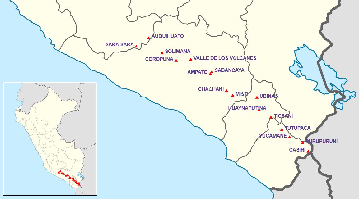 Map of active and potentially active volcanoes in southern Peru.